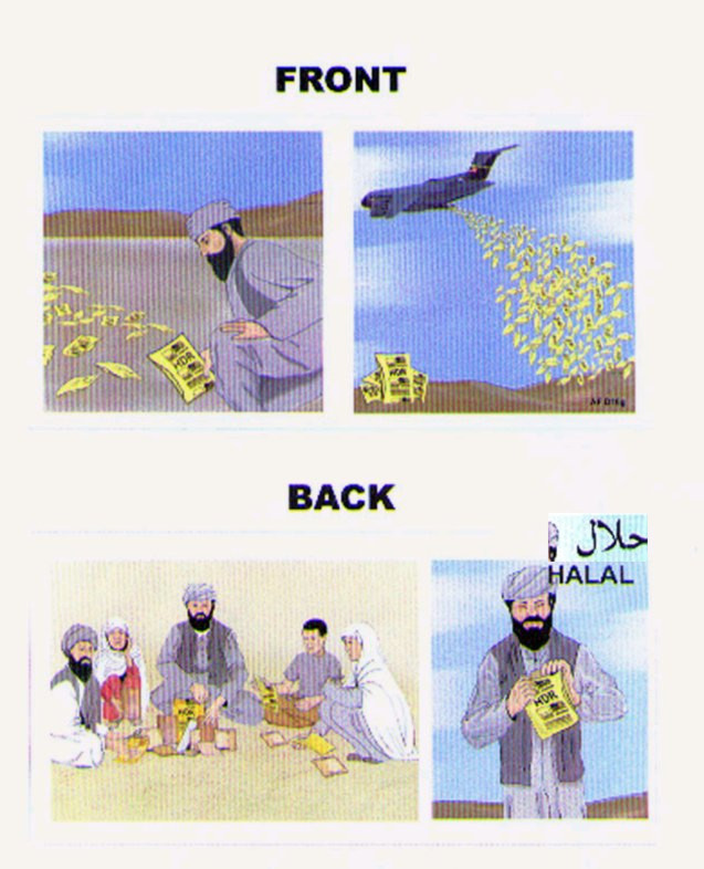 Humanitarian Daily Ration leaflet, dropped in Afghanistan, fall 2001